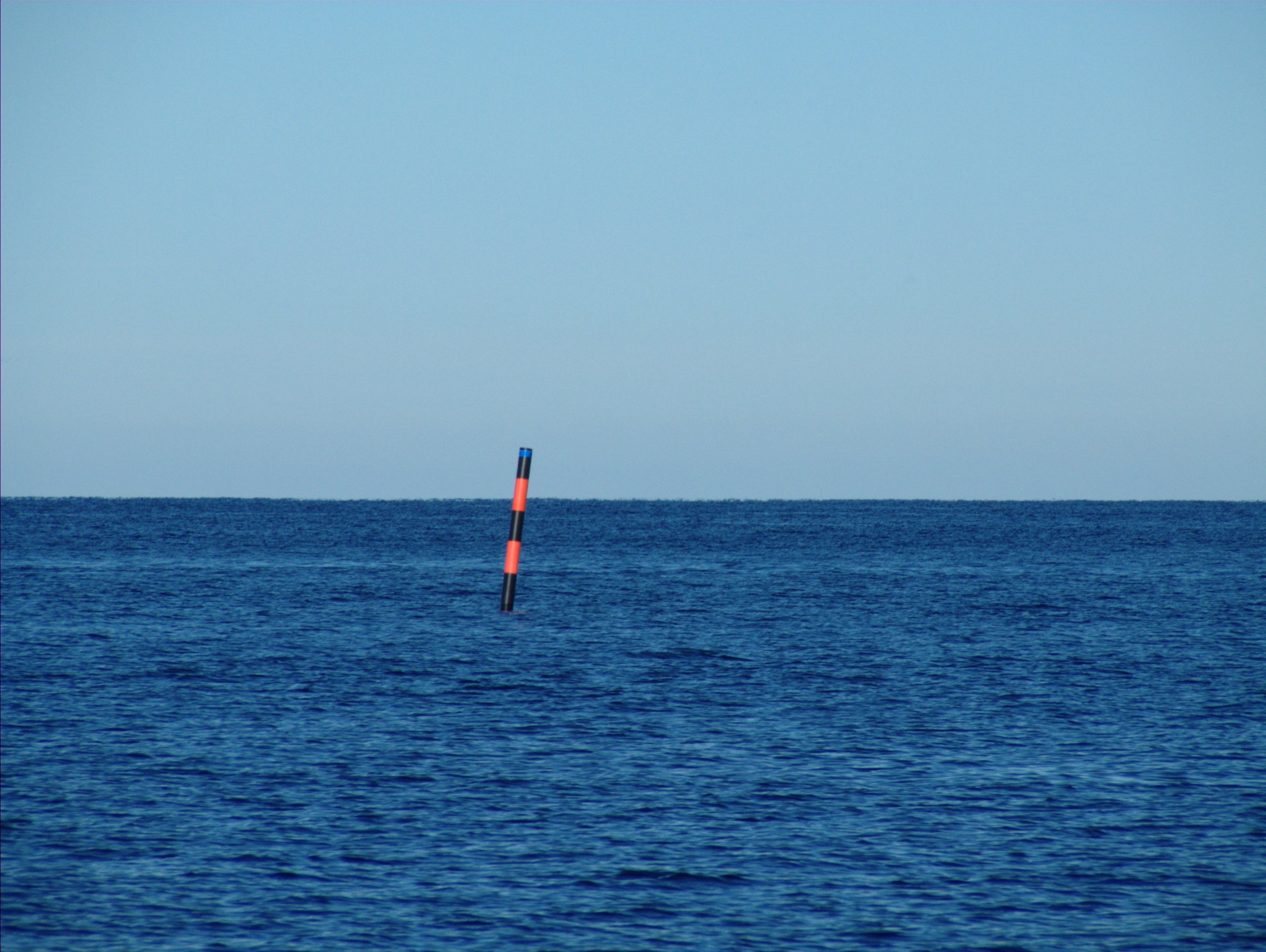 Isolated danger mark (without top-mark) on Norwegian waters